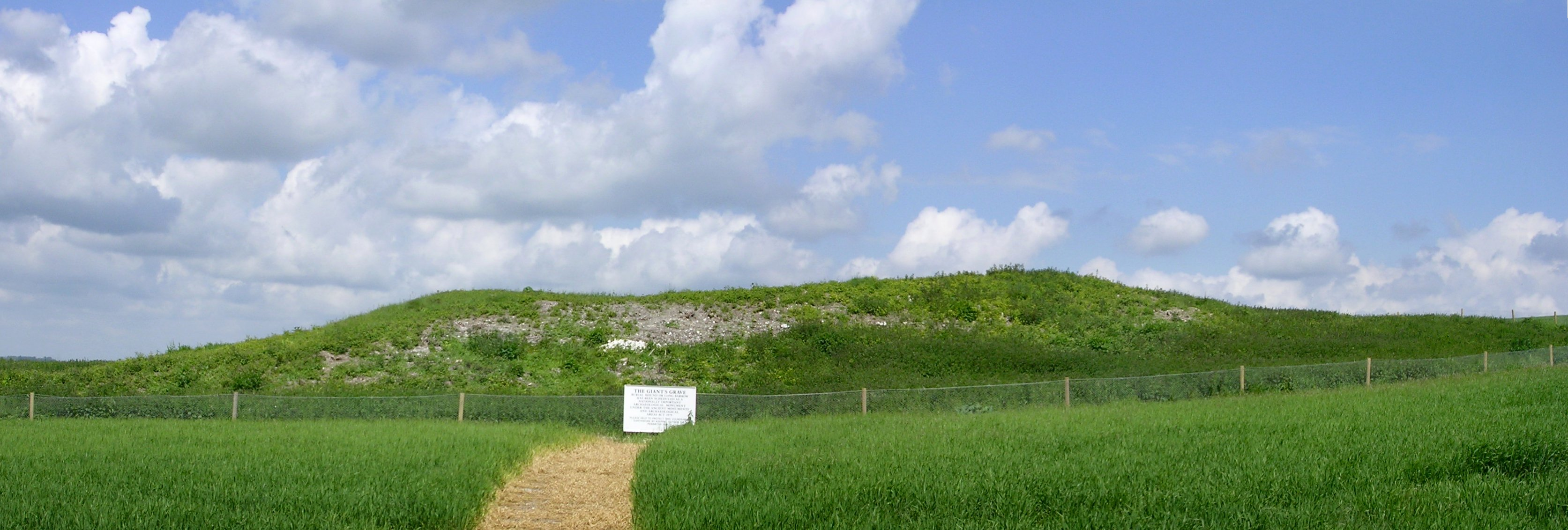 Composite photo of the Giant's Grave long barrow, between Whitsbury and Breamore in Hampshire, U.K.